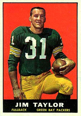 National Football League player Jim Taylor displayed on a Topps football trading card with the Green Bay Packers in 1961